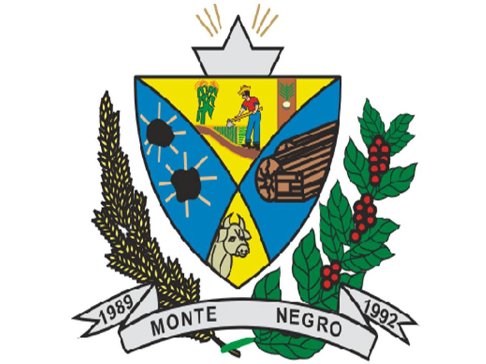 Coat of arm of the city of Monte Negro, Rondônia, Brazil.